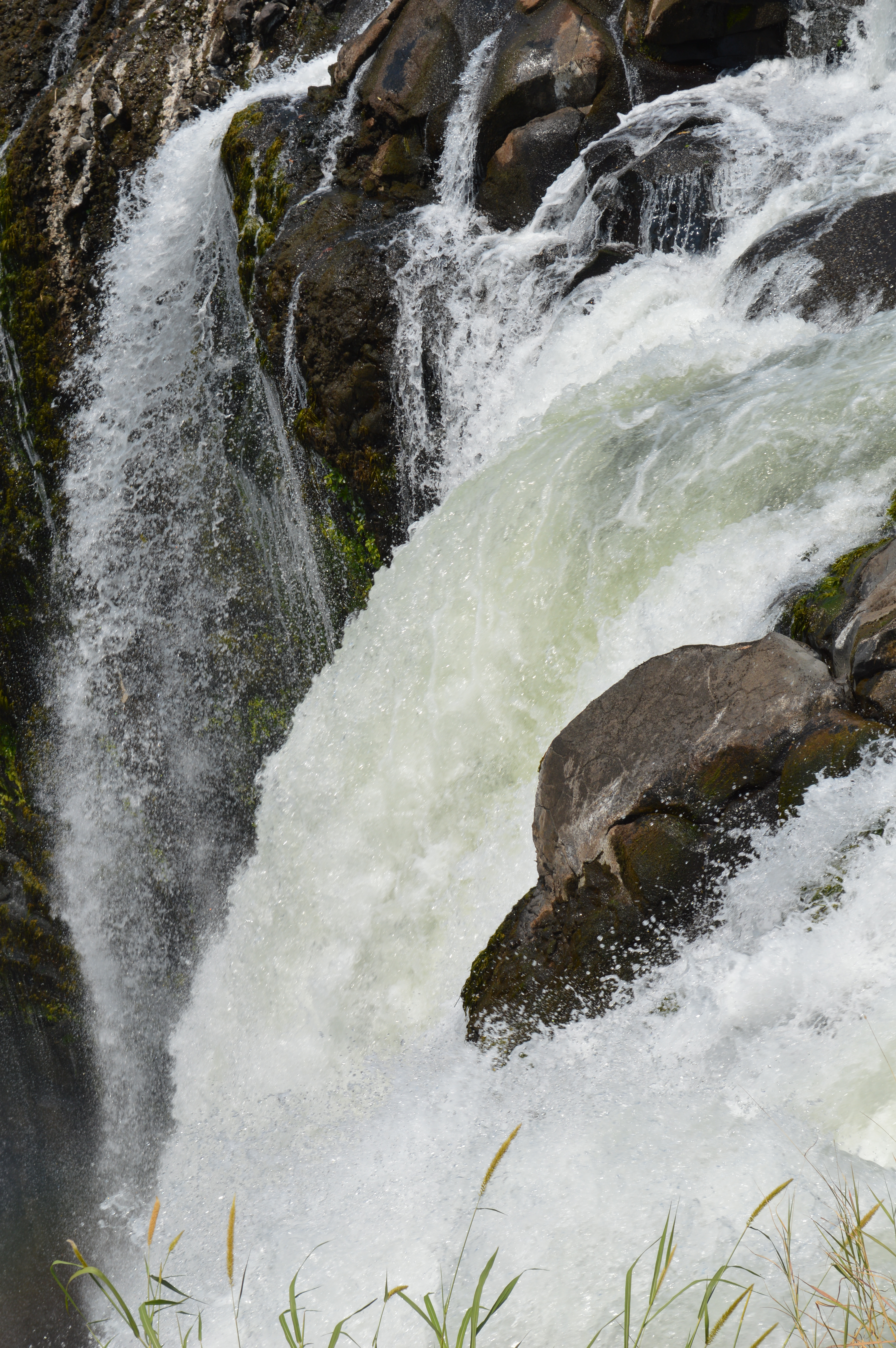 view from above at the Eyipantla Waterfall in San Andres Tuxtla, Veracruz, Mexico